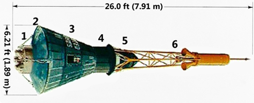 Mercury spacecraft with measurements, colorized